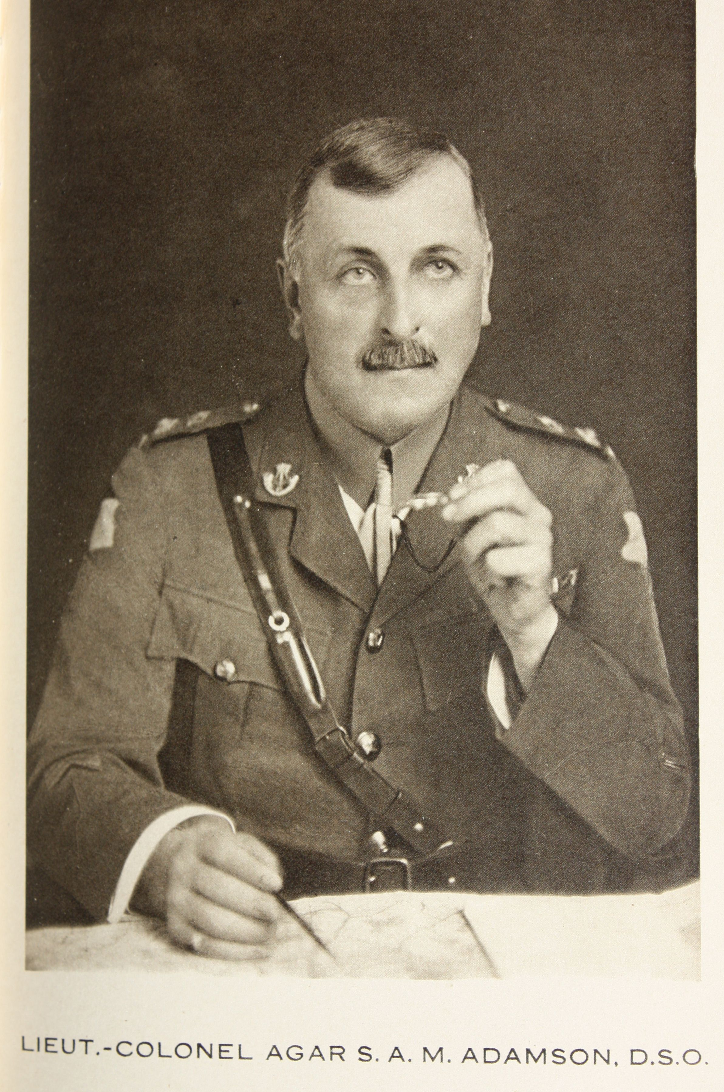 Lieutenant-colonel Agar Stewart Allan Masterton Adamson (25 December 1865 – 21 November 1929) commanded the Princess Patricia's Canadian Light Infantry from 1916 to 1918.